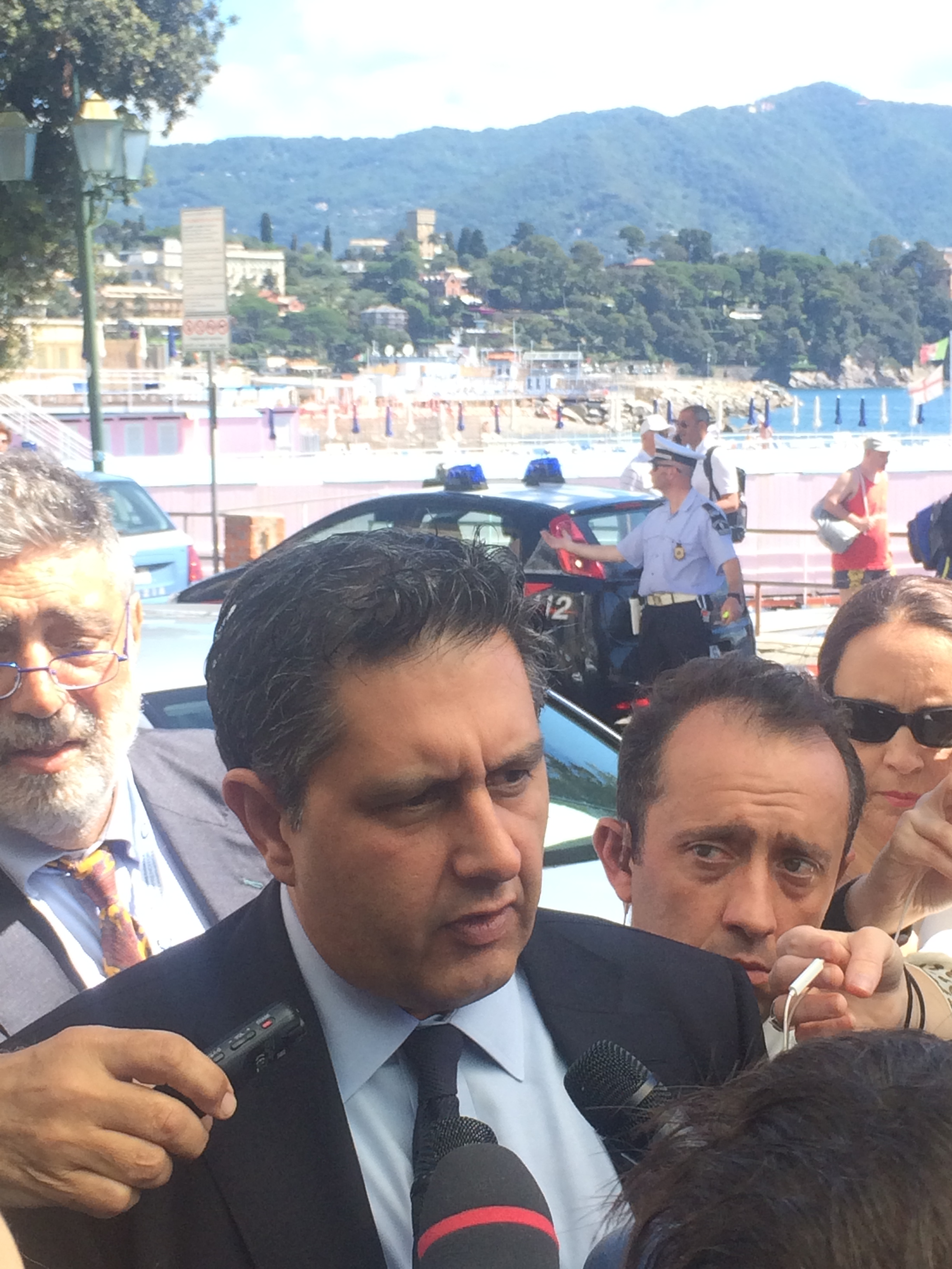 Giovanni Toti nel 2016 al convegno dei Giovani Imprenditori di Confindustria a Rapallo